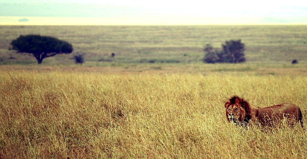 After waiting for 15 minutes near a pride without its leader, finally we were lucky to see him coming suddenly from afar. Ignoring some 10 jeeps and 50 ppl in it, he came out of nowhere, and settled down near his pride. A true king. Location: Serengeti, Tanzania